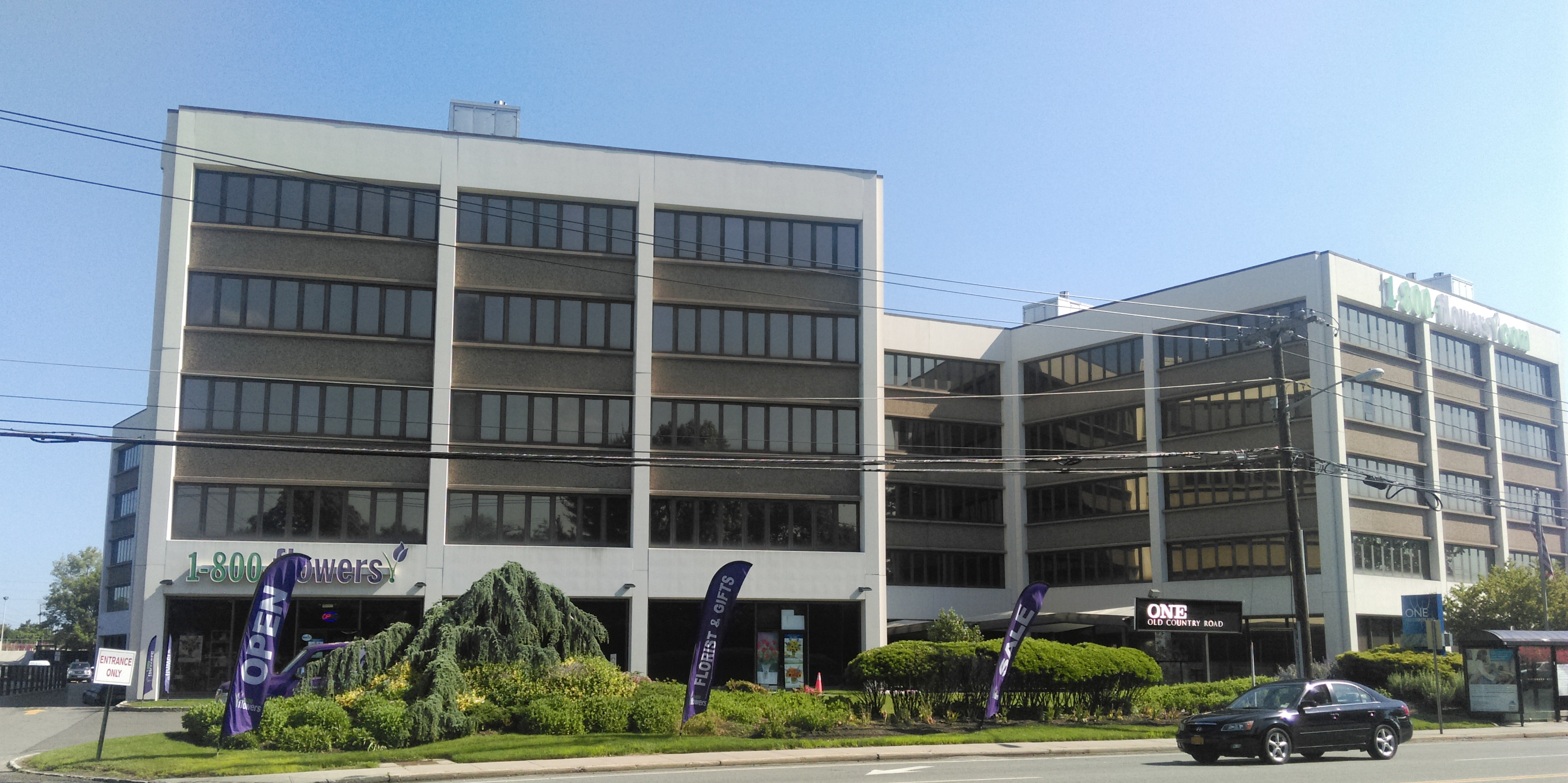 Looking north across Old Country Road at headquarters building.